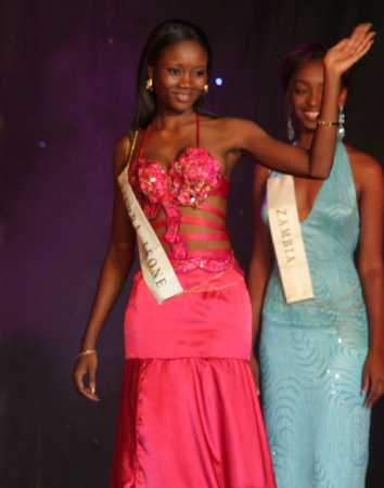 Miss Sierra Leone 2008 Tyrilla Gouldson during Miss World 08